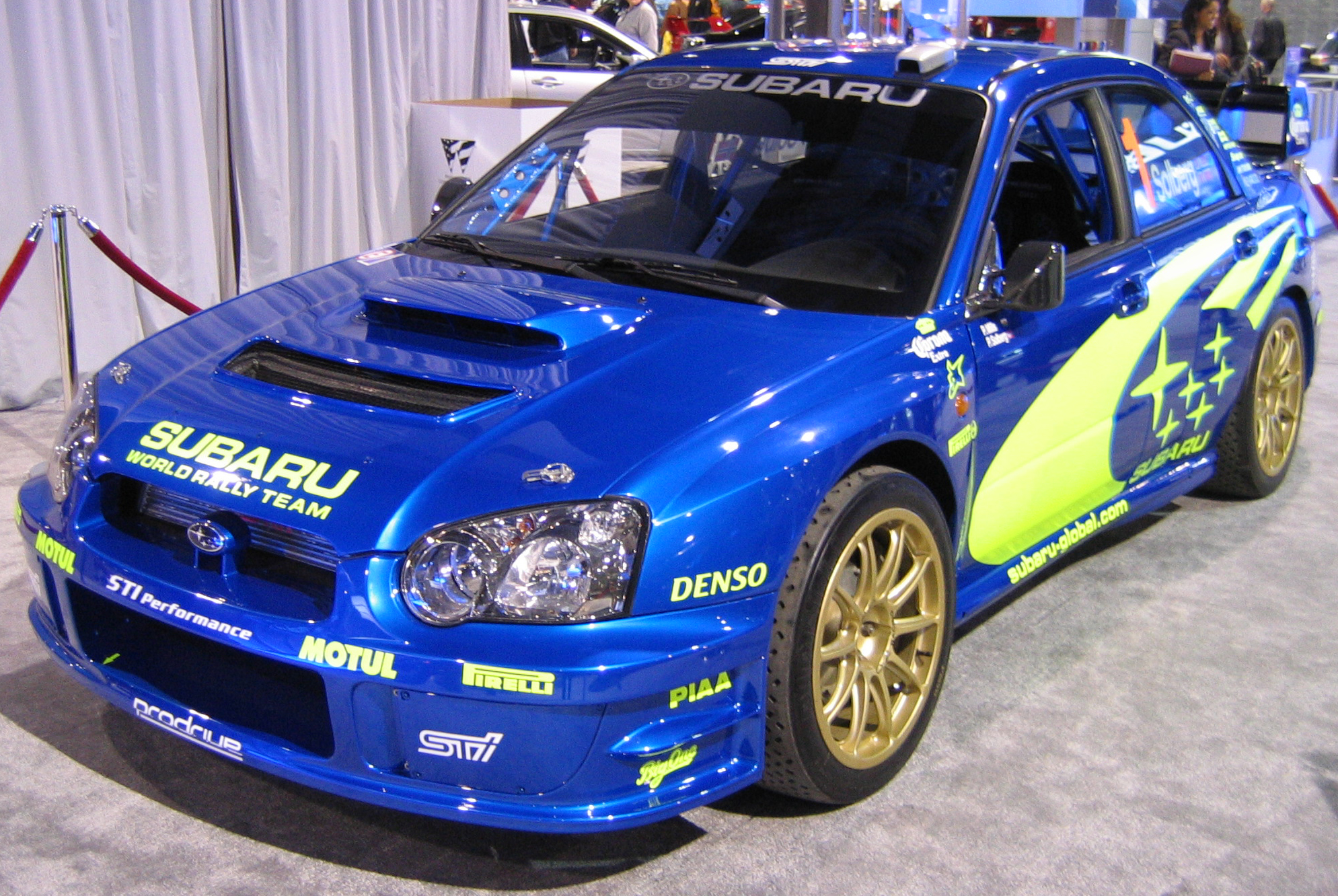 Subaru Impreza at the 2006 Washington Auto Show. Photo by Kmf164, taken on January 28, 2006.